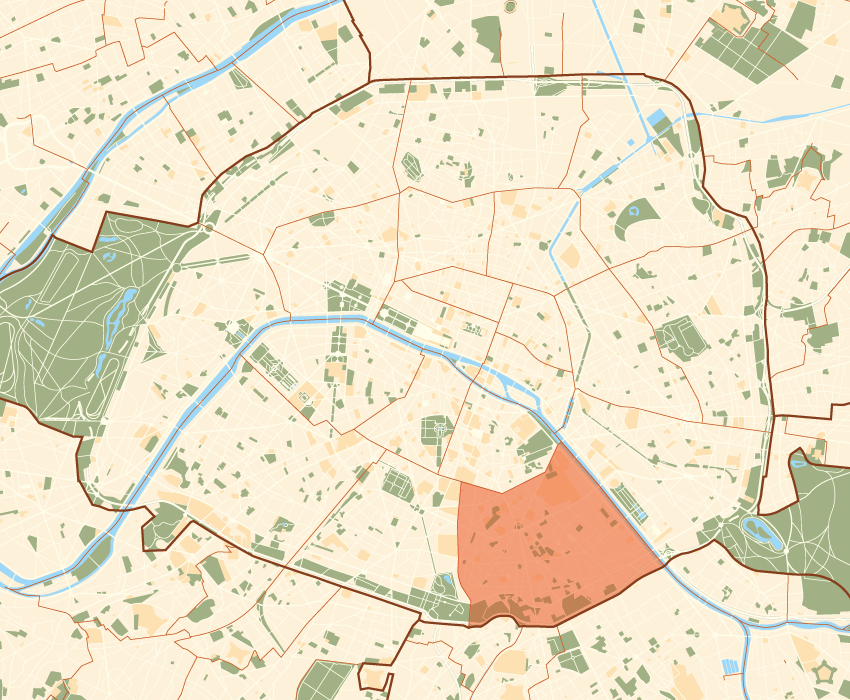 Plan by ThePromenader (own work)